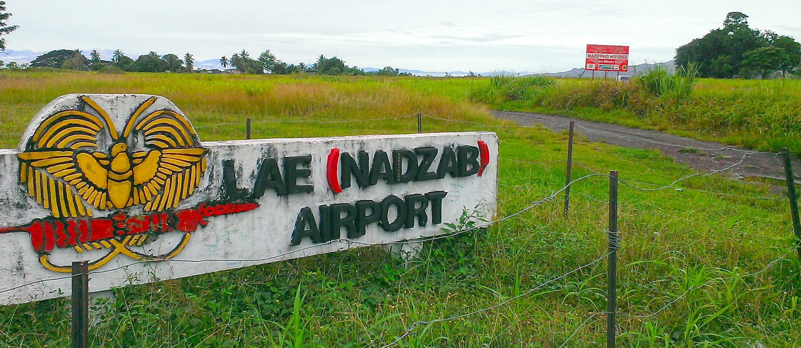 Photo of Nadzab airport sign in Lae Papua New Guinea